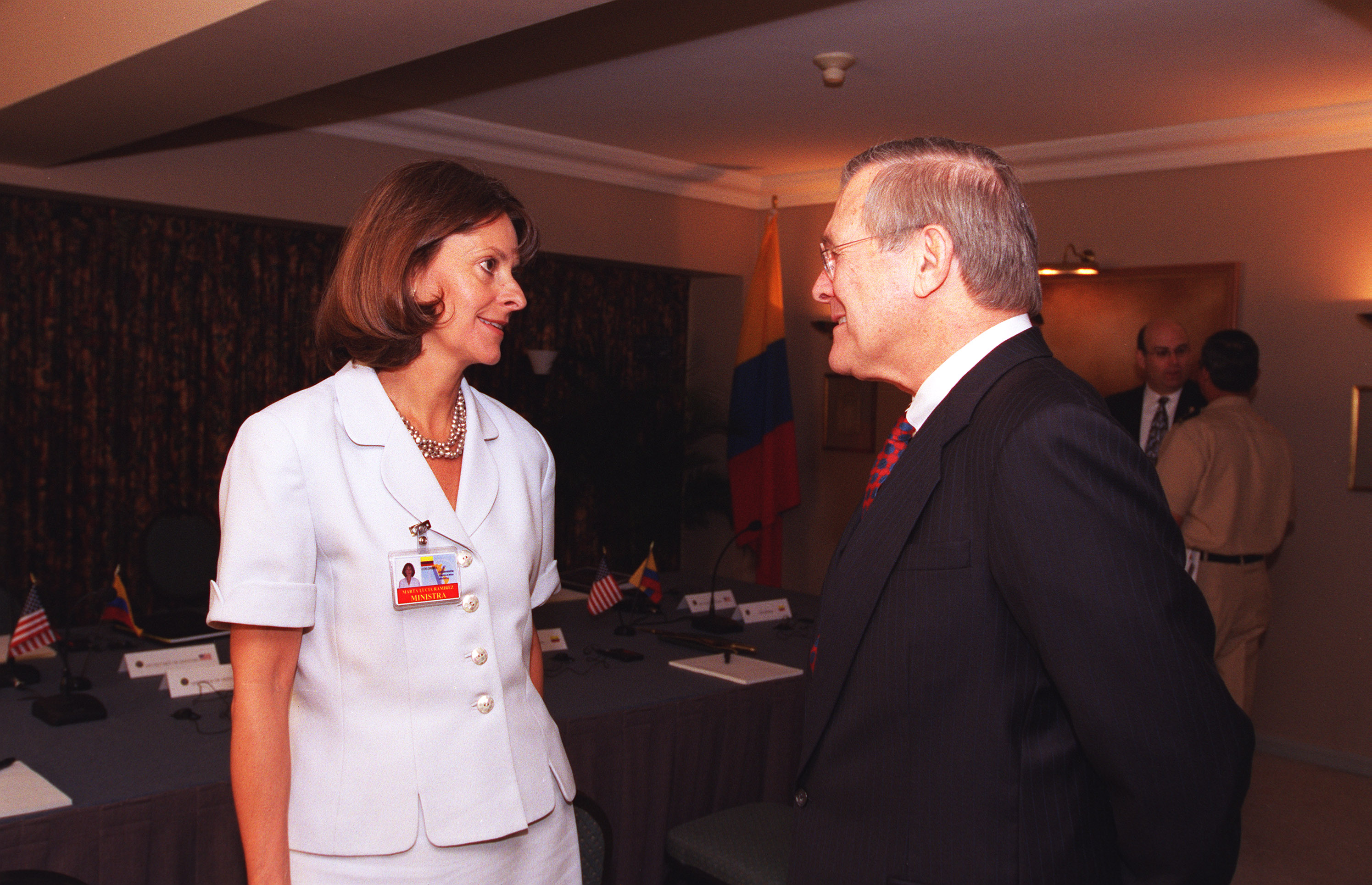 Colombian Minister of Defense Marta Lucia Ramirez (left) talks with Secretary of Defense Donald H. Rumsfeld (right) during the Defense Ministerial of the Americas in Santiago, Chile Nov. 18, 2002.